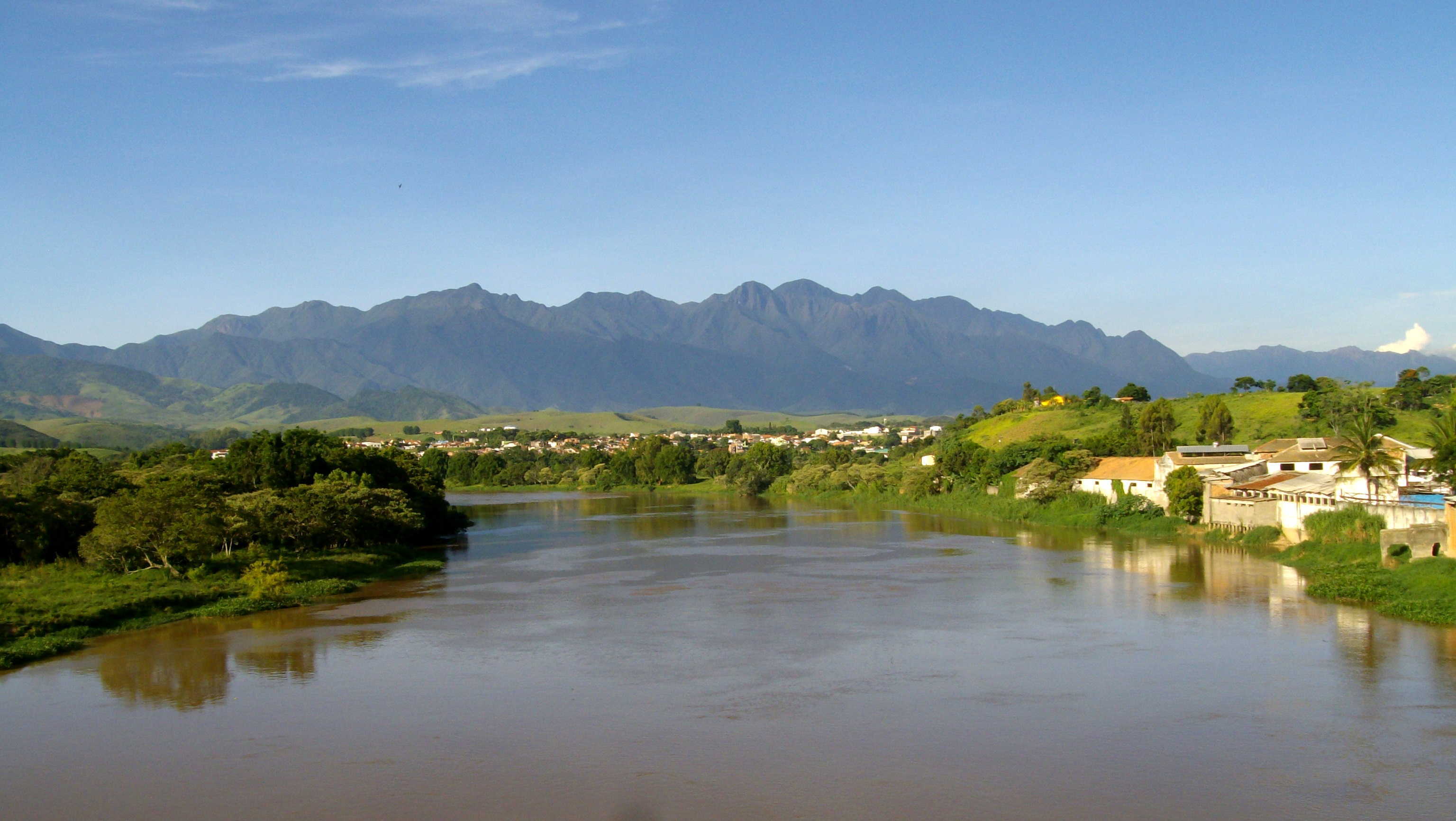 Paraíba do Sul River in Cruzeiro city São Paulo State January 2014